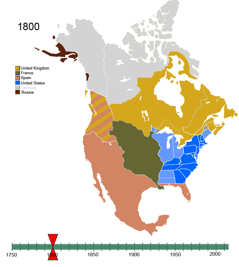 Non-Native American Nations Control over N America circa 1800